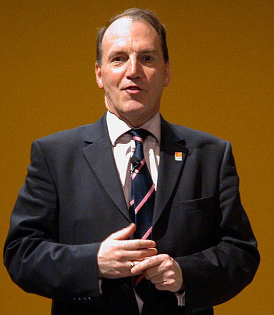 Simon Hughes MP addressing a Liberal Democrat conference in the ACC, Liverpool